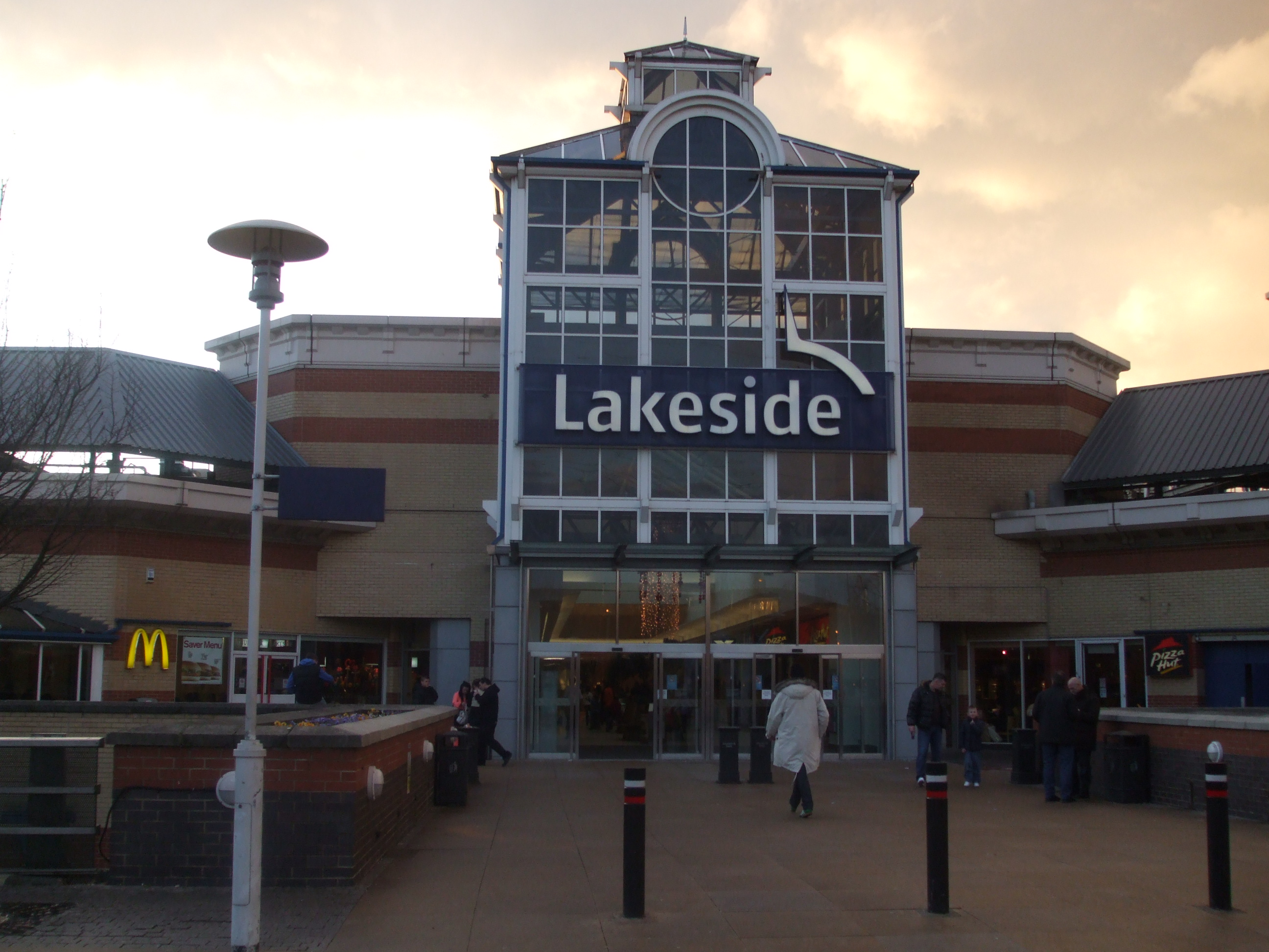 Lakeside Shopping Centre eastern entrance.